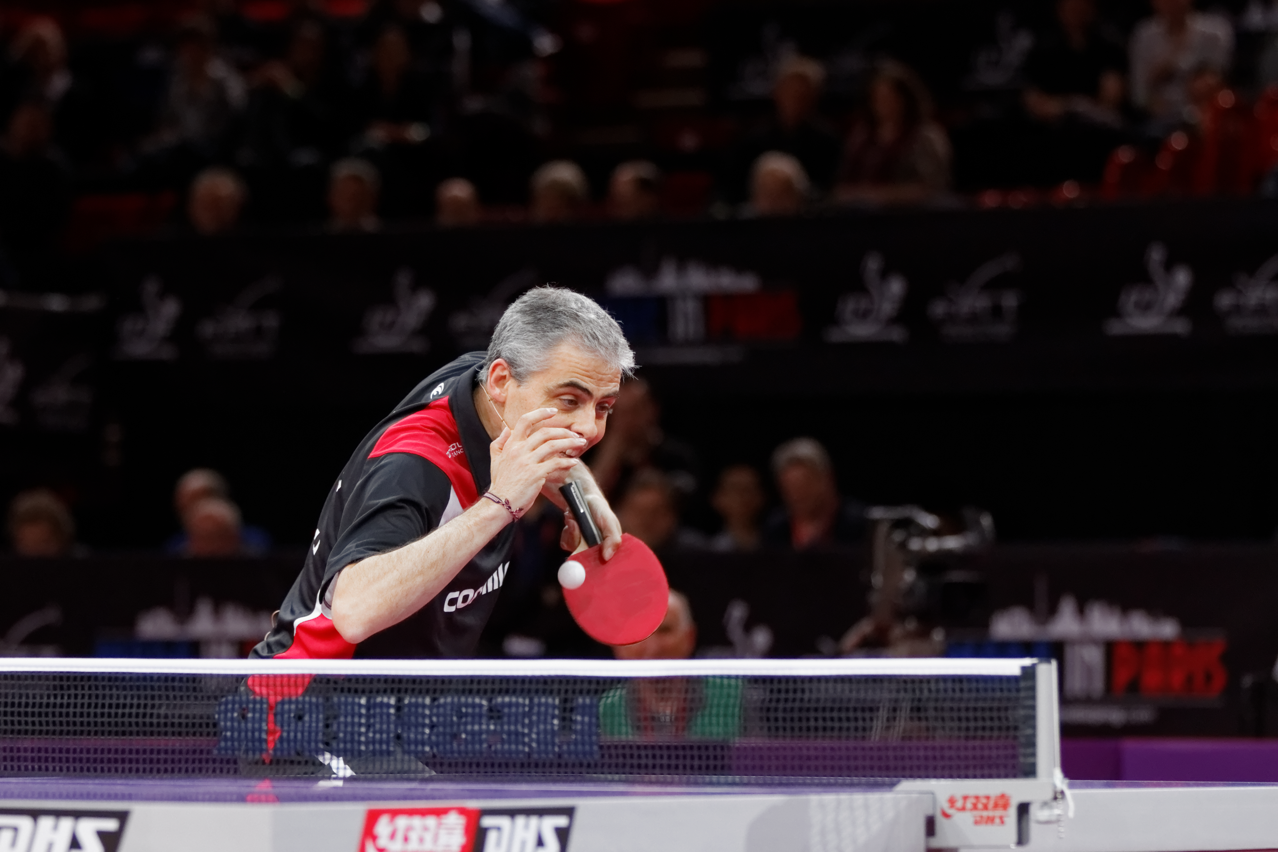 2013 World Table Tennis Championships, Paris. Jean-Michel Saive vs Jean-Philippe Gatien exhibition match.